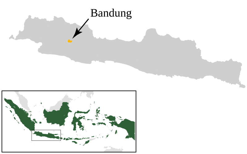 Locator map of Bandung, West Java, Indonesia